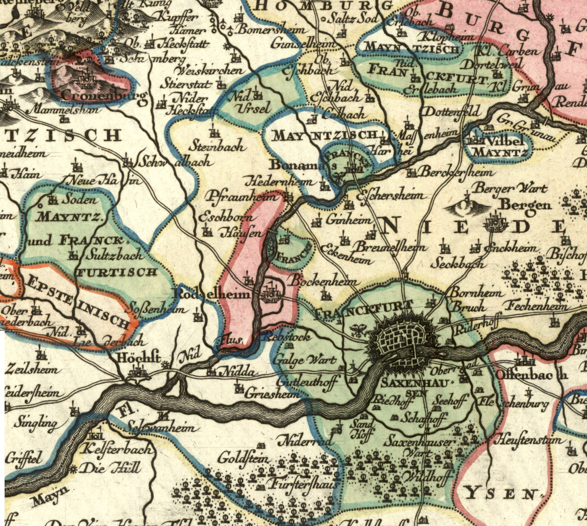 Detail of a mid-18th century map of the Wetterau, Germany, showing the territory of the Imperial city of Frankfurt am Main (in green), including its many exclaves. The map, titled Wetteravia cum omnibus inclusis Principatibus Comitatibus, Dominiis et Praefecturis (etc.) was published by Matthaüs Seutter between 1740 and 1760.